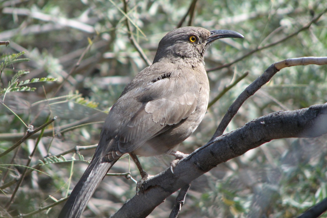 Toxostoma curvirostre, Desert Botanical Garden, Arizona